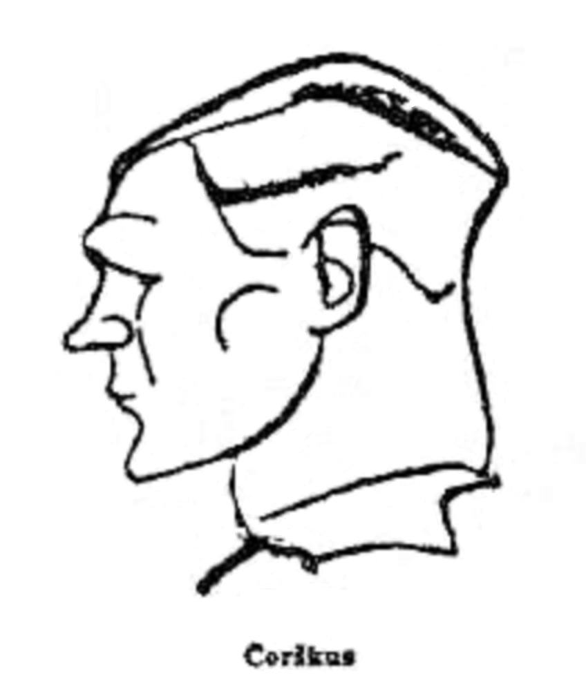 Jurgis Čerškus (Cerskus) (1919-1942) - famous Lithuanian swimmer and ice hockey player. Drawing from Latvian sports paper "Sporta Pasaule" (1944 01 10, page No.1).